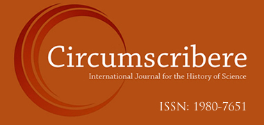 Circumscribere: International Journal for the History of Science